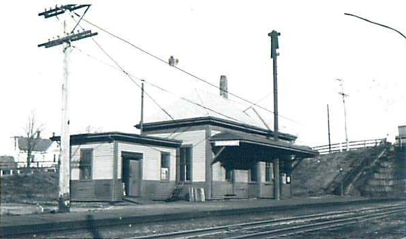 Photo of Salisbury station from an divided back postcard